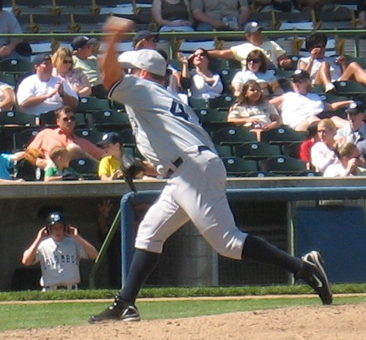 Scranton Wilkes Barre Yankees pitcher Ron Villone 08:23, 26 July 2007 . . Haltrosky . . 525×489 (82 KB)